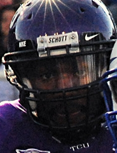 Air Force Falcon quarterback Tim Jefferson is chased out of the pocket by Texas Christian University defensive end Jerry Hughes (shown) Nov. 22 in Amon G. Carter Stadium in Fort Worth, Texas. The Frogs beat the Falcons, 44-10.